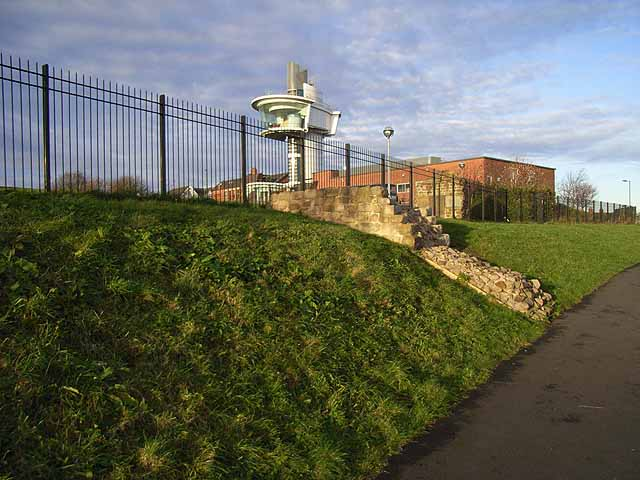 Hadrian's Wall at Wallsend Not quite certain whether this is a piece of the original Hadrian's Wall Hadrians_Wall or a replica. Located at the very eastern end of Hadrian's Wall and of Hadrians Wall National Trail which runs 135 km from Bowness-on-Solway to Wallsend The path in the foreground also carries route 72 of the National Cycle Network (Hadrian's Cycleway and the Tynemouth branch of the C2C Cycle Route ). In the background is the Segedunum Roman Fort and Museum opened in 2000.